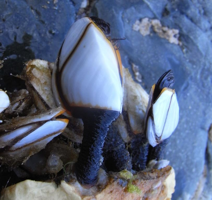 Lepas anatifera, taken in Playa Ponzos, Ferrol, Spain